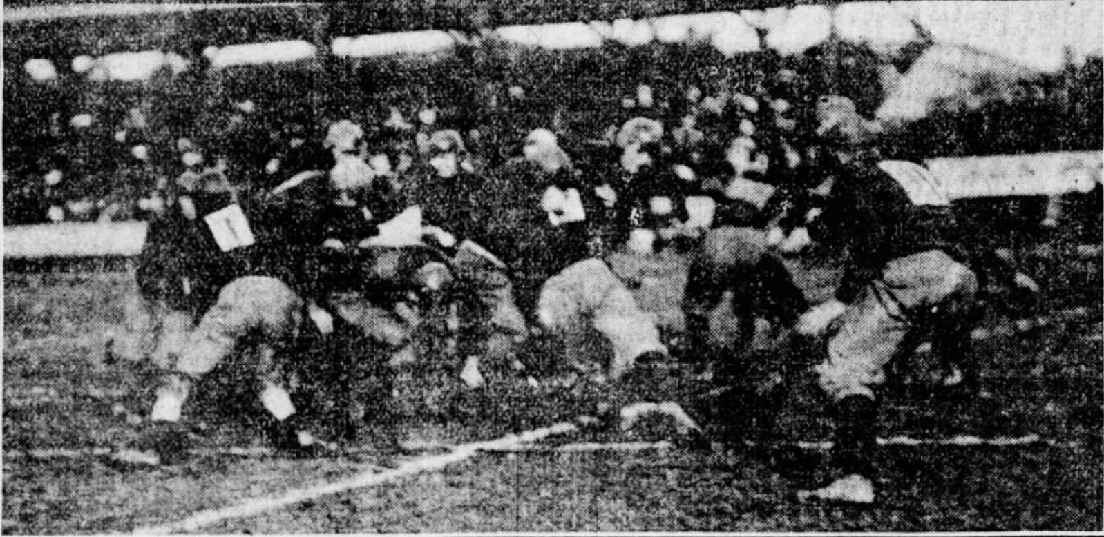 1907 WUP versus Penn State game action - Players have numbers on their jerseys.